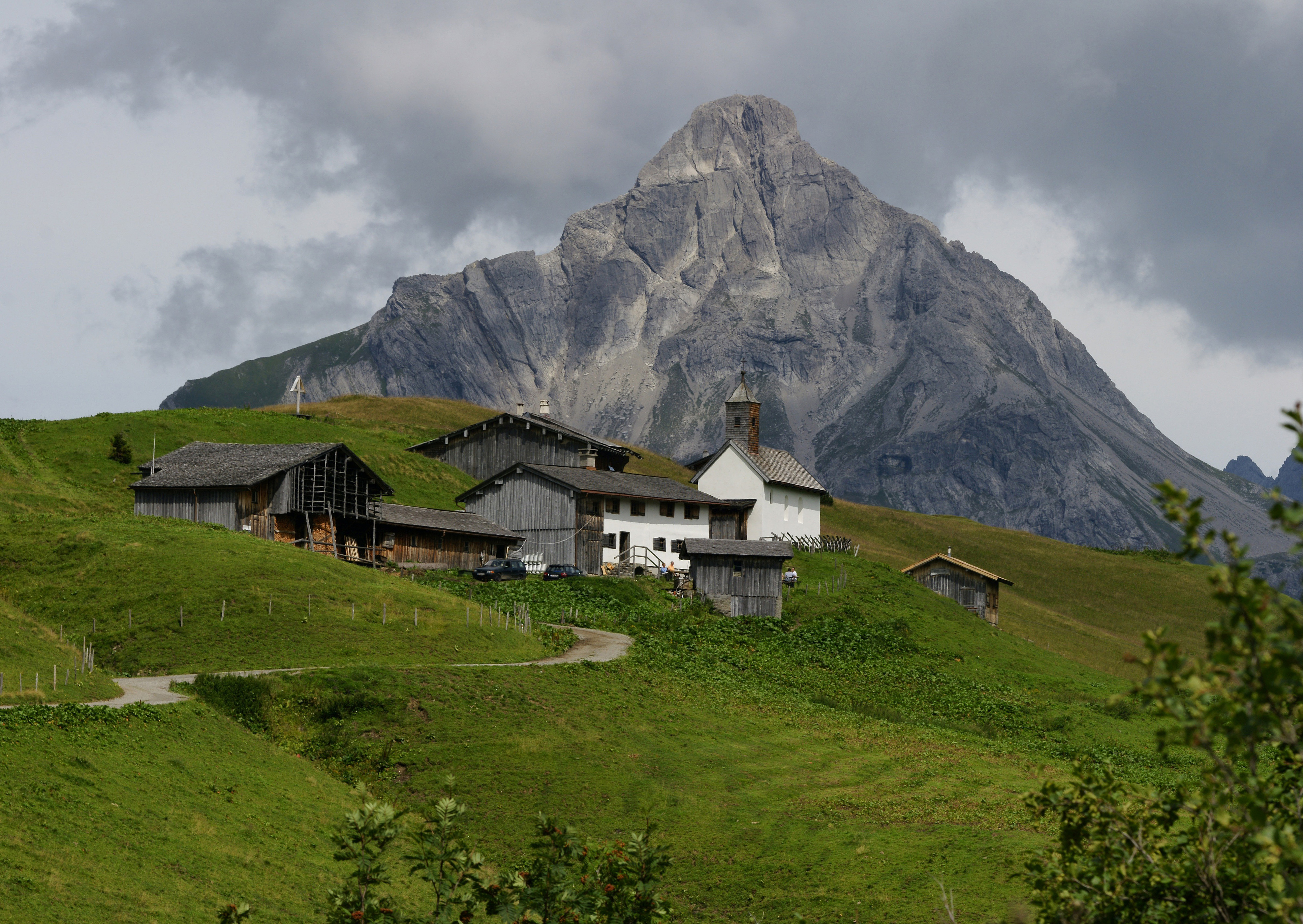 Panorama before the 6.5 kilometers away Biberkopf 2599m in the Allgäu Alps, consisting of several images. At the foot of Warther Karhorn 2.416m in Lechquellengebirge is the oldest and highest (1.719m) Walsersiedlung in Vorarlberg. The church, built in 1695 dedicated to St. Martin. Until the late 19th Century, the settlement was inhabited throughout the year. After most of the houses were demolished. Links die Trockenlaube: Kapelle